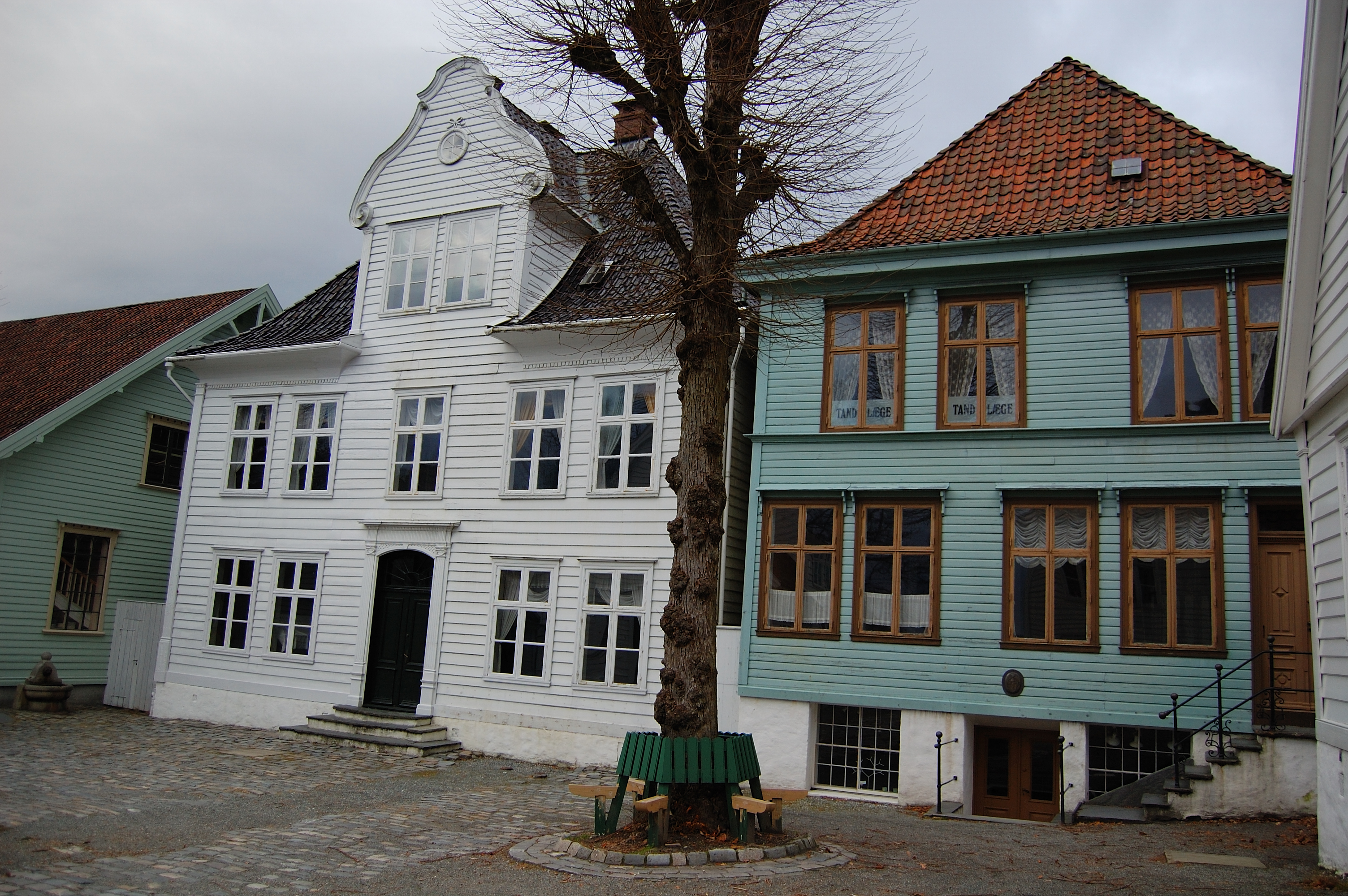 Gamle Bergen - open air museum in Bergen, Norway.